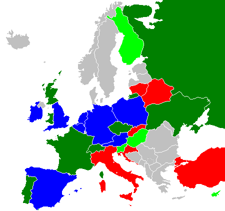 Top division II. division III. division IV. division